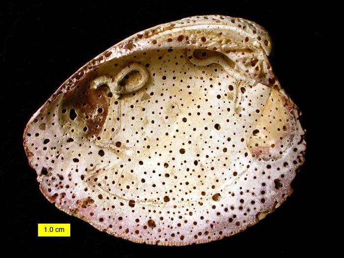 Sponge borings (Entobia made by the genus Cliona) and encrusters on a shell of the modern hard clam, Mercenaria mercenaria, from North Carolina. This encrustation and boring happened after the death of the clam when the shell was empty.